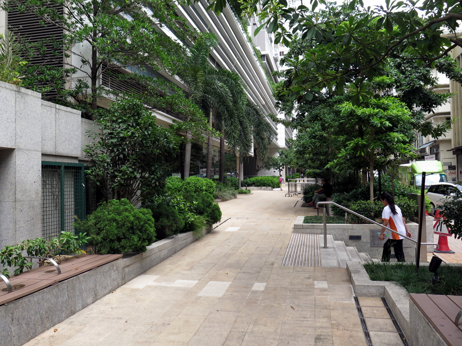 Island Crest Public Open Space, Sai Ying Pun